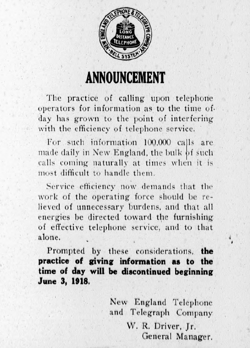 Notice from New England Telephone & Telegraph Company announcing imminent discontinuance of telephone operators giving subscribers the time of day, Cambridge Tribune, Volume XLI, Number 15, 8 June 1918, page 12.